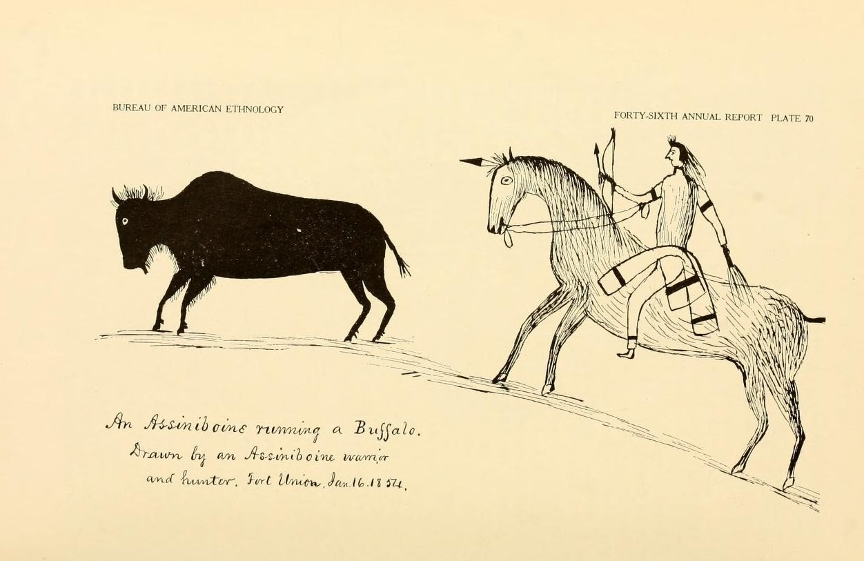 An Assiniboine Indian hunting a bison. Made by an Assiniboine during a visit to the Trading post Fort Union on the Upper Missouri